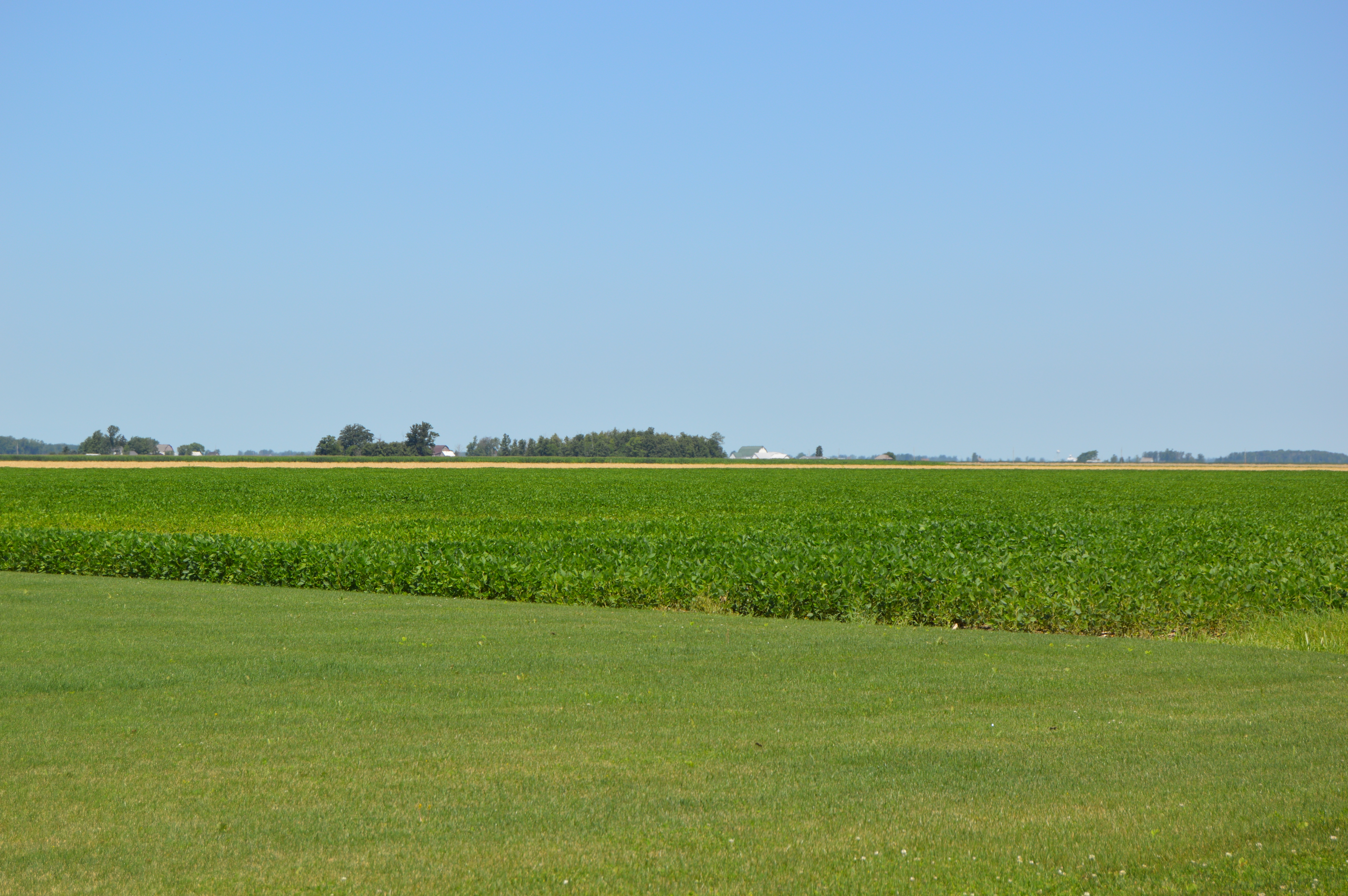 A soybean field in extreme southern Richfield Township, Henry County, Ohio, United States, seen looking northwest from Road 5 just north of Road G.